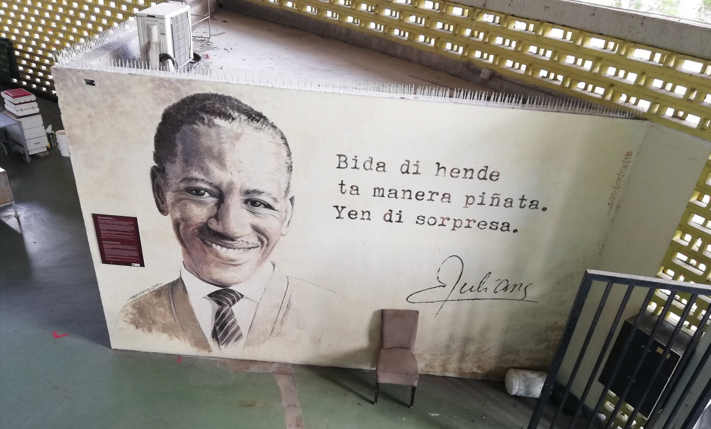 Text: Bida di hende ta manera piñata. Yen di sorpresa.Translation: Life of people is like a piñata. Full of surprises. Elis Juliana is Curaçao's most remarkable and best-known cultural expert. He has been collecting, documenting and presenting the culture of Curaçao in many different ways. In doing so, he was fully alive to his native language, rhythm, oral traditions. spirituality, the history and resistance of slavery, games, eroticism and dealing with death.Juliana began as an artist and turned out to be a versatile artist, a poet, narrator, sculptor and writer. He soon started moving on the path of research into native culture. Juliana's great merit is that he has systematically documented our culture from the years before and during the modernization in the twentieth century. He was then joined by Father Paul Brenneker. They collected an irreplaceable wealth of information. It comprises not only an abundance of data from oral history, but also may objects, as a witness of the material cultural heritage.In the course of years, Elis Juliana has received several prizes as a token of acknowledgement for his work. In 2013 Elis also received an honorary doctorate from the University.Elis Juliana himself will be grateful to us, if we carry on his work and continue substantating the Curaçao identity.(Text on a plaquette next to the portrait)